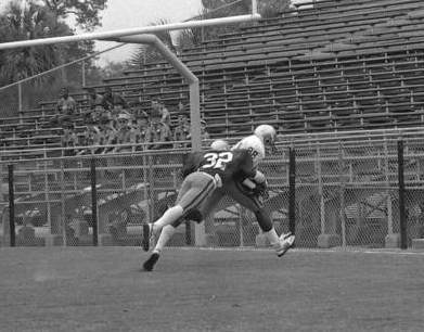 Martin Mayhew tackles Hassan Jones in the Garnet and Gold Game - Tallahassee, Florida.